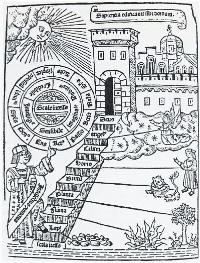 Ramon Lull's Ladder of Ascent and Descent of the Mind, first printed in 1305